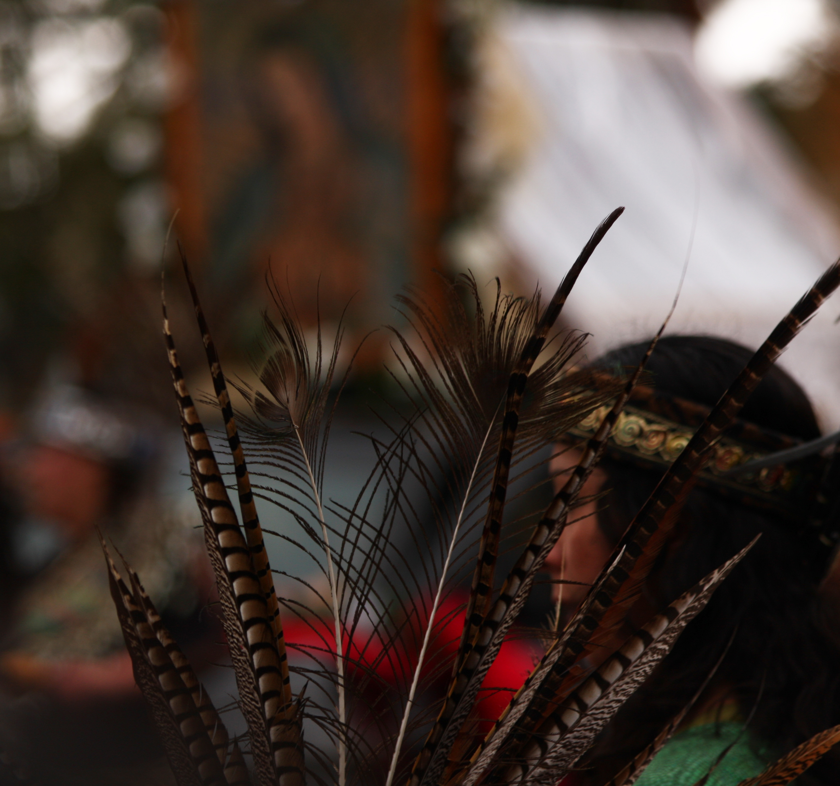 Native American Faith